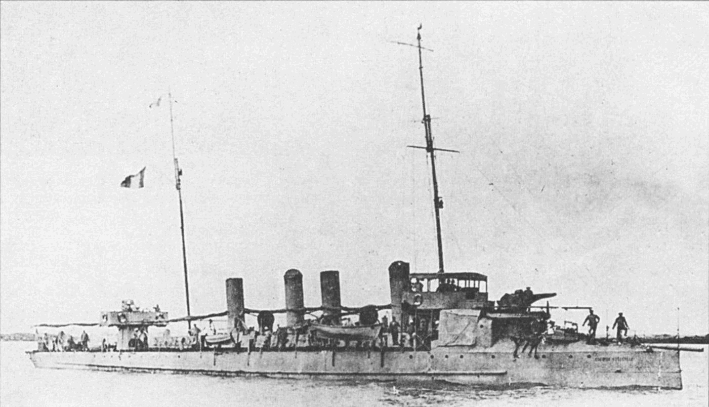 French destroyer Quentin Roosevelt, former Imperial Russian destroyer Boikii.